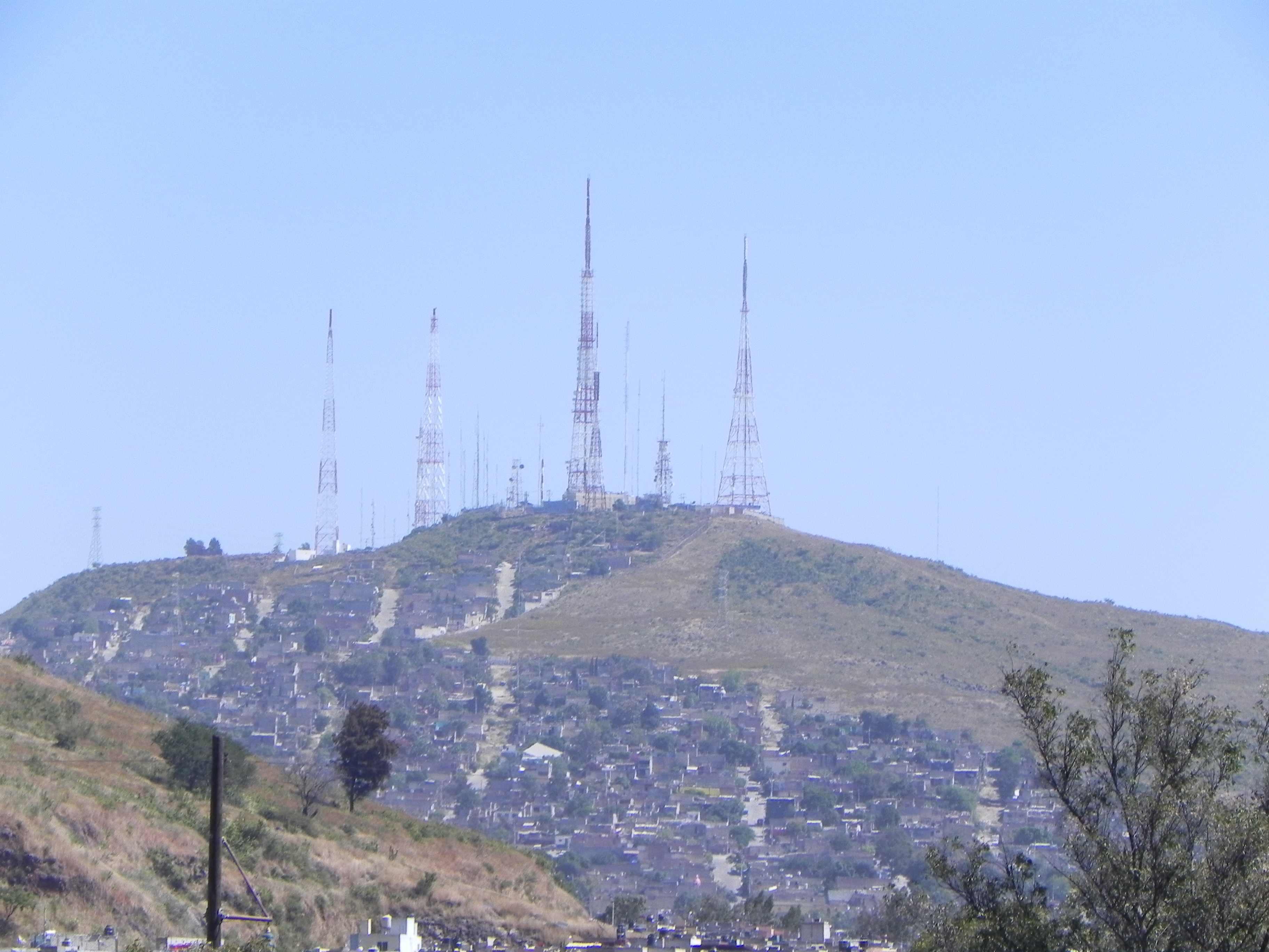 A photograph of "Cerro del Cuatro" (roughly "Hill of the Four") in Tlaquepaque, Jalisco, Mexico.